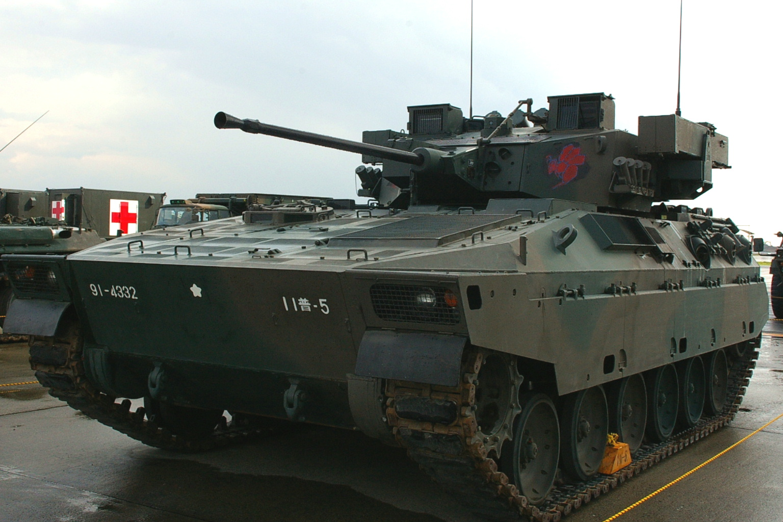 JGSDF Type89 FV.